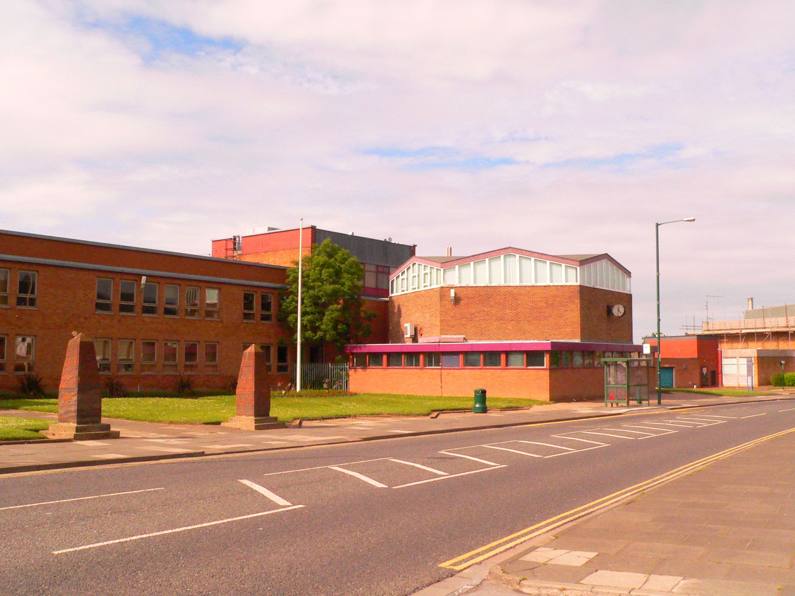 Redcar and Cleveland Town Hall. The former town hall, in Teesville, with a modern design. It was demolished in 2012.